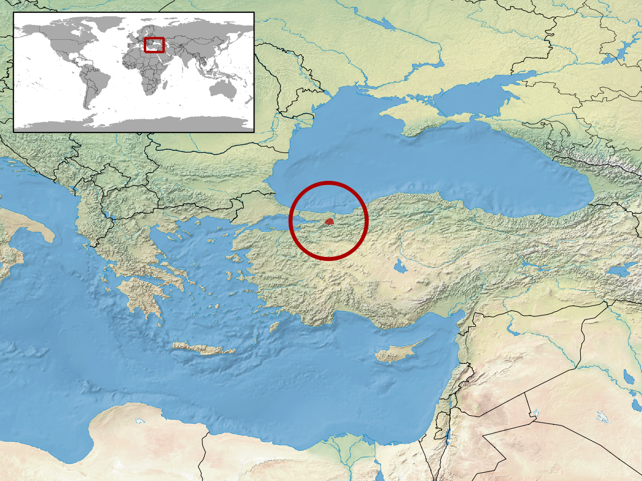 geographic distribution of Vipera barani (Native: Turkey)